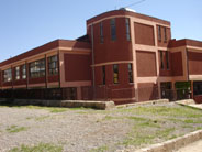 Sandford International School is located in Addis Ababa, Ethiopia. the school, previously called [Sandford English (Community) School], traces its origins to the early 1940s when Mrs. Christine Sandford, wanted to establish an English-speaking school for her children. The English –speaking community was very small at the time but the Ethiopian nobility also wanted access to an English education for their children. Christine Sandford was the wife of Colonel Sandford, the Head of British Military Mission to Ethiopia during World War II, who along with Cunningham and Wingate, led the British contingent that was dispatched by the British Government to help Emperor Haile Selassie I and the Ethiopian army reclaim the country from 5 year of Italian occupation under Mussolini’s Government. Partly in gratitude for their assistance and partly because Colonel Sandford liked Ethiopia very much and returned here to live with his family, as close friends of the Emperor and the restored government, the Sandford family was granted land for farming and for building a school. Sandford School grew rapidly, and in a manner befitting the founders and their interest in living in Ethiopia and educating their children along with Ethiopian children. From the beginning, as agreed with the Imperial Government, the school was open to Ethiopians with a reduced, subsidized system of fees to allow the attendance of Ethiopian children, including children of the Royal and other leading families. There was thus a development of education component meant to benefit the whole country, not only the few British families. Mission To create world citizens by empowering critical thinking, effective communication, and social awareness